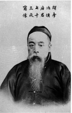 Xu Dingchao